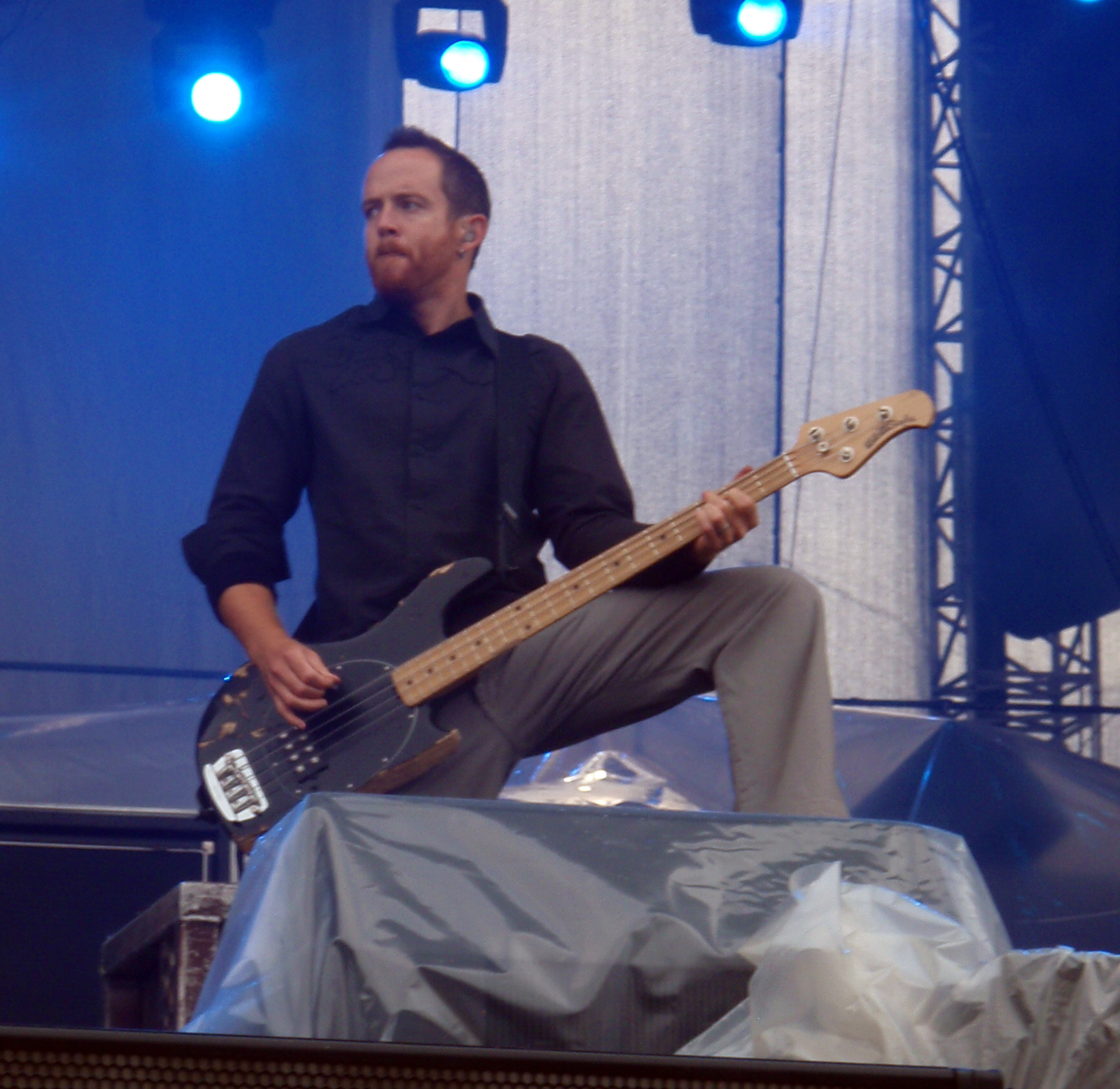 Dave Farrell from Linkin Park performing at Sonisphere Festival in Kirjurinluoto, Pori, Finland.